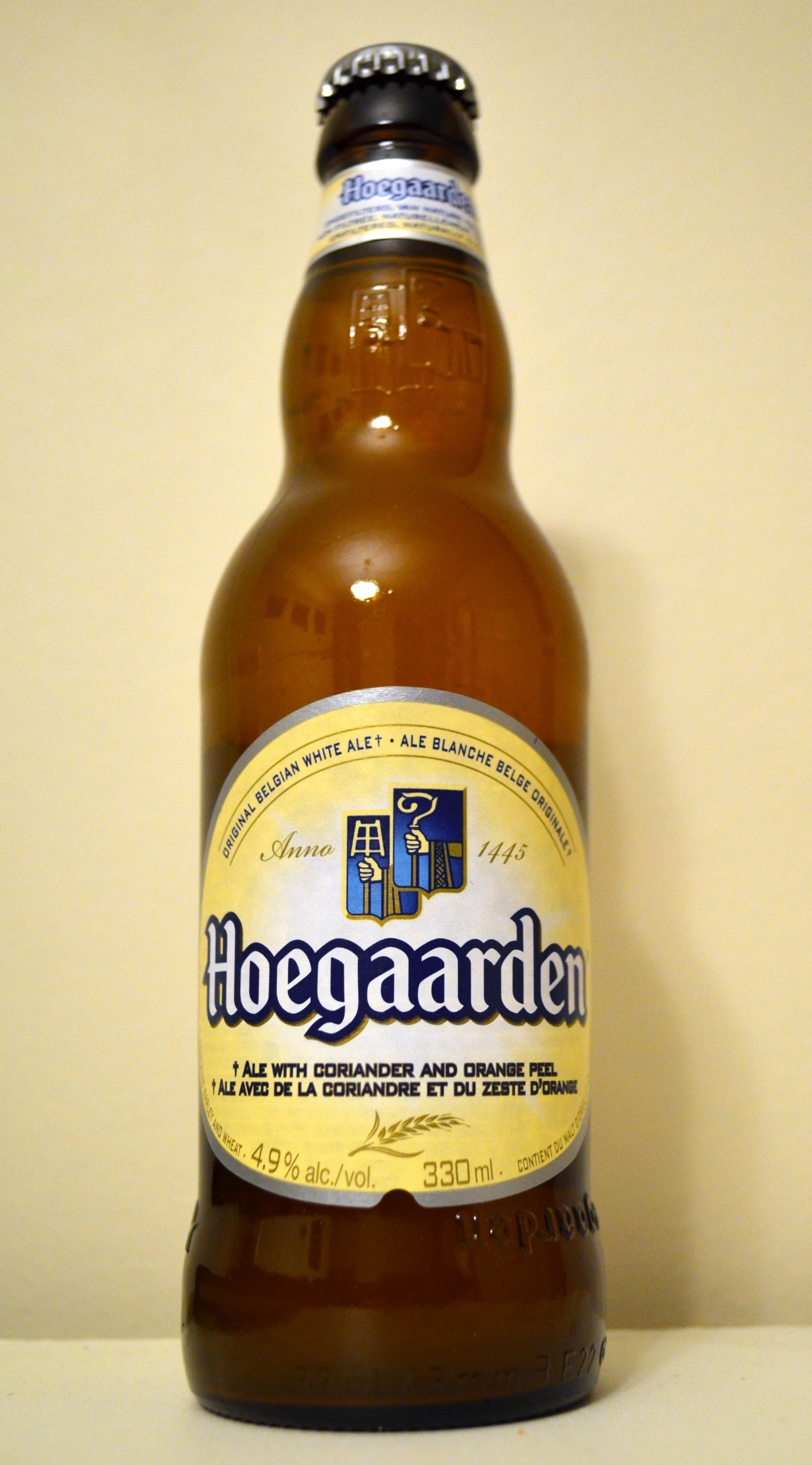 Hoegaarden original belgian white ale, 330ml bottle with Canadian bilingual English/French label.